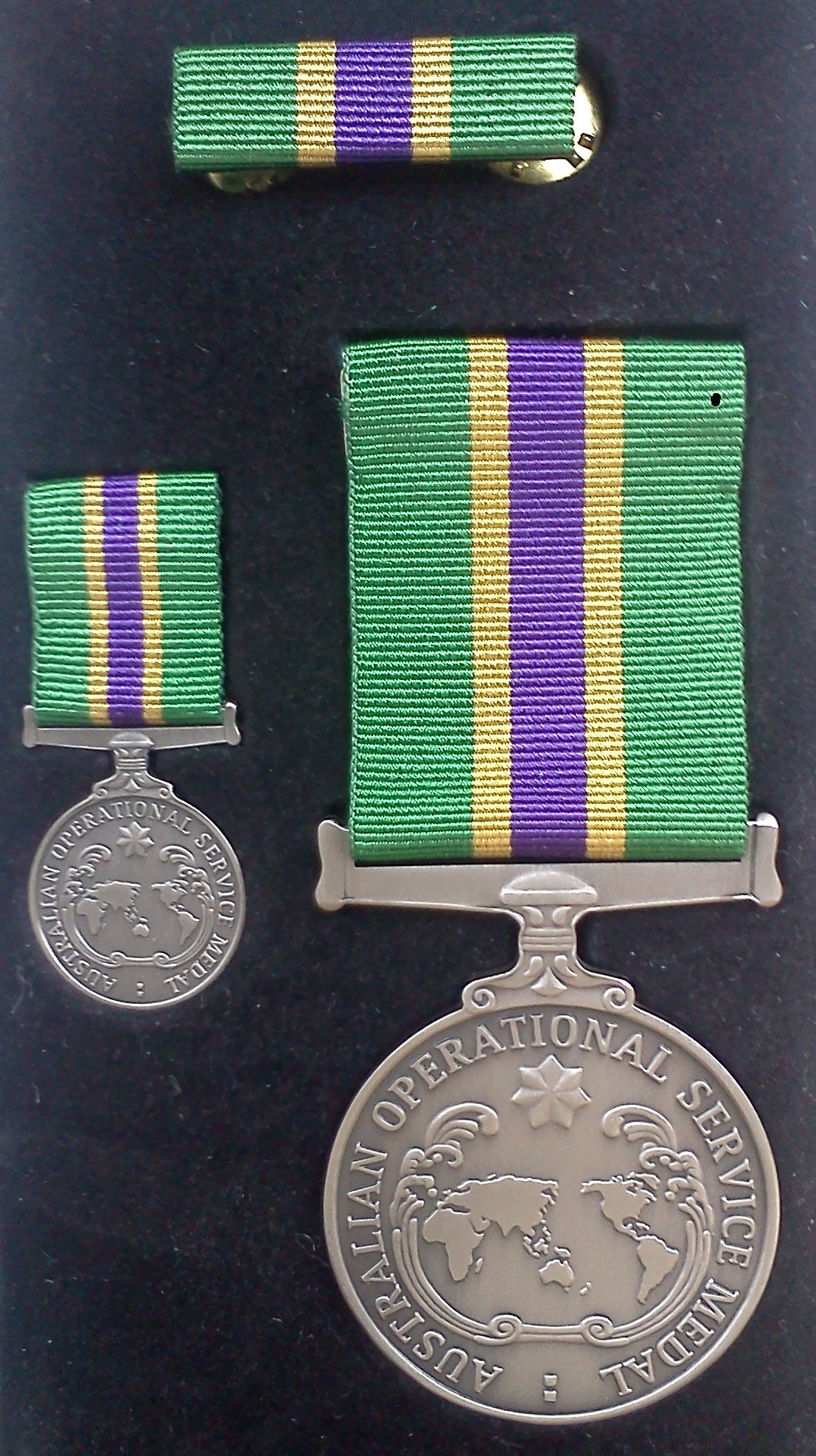 Australian Operational Service Medal#Civilian version